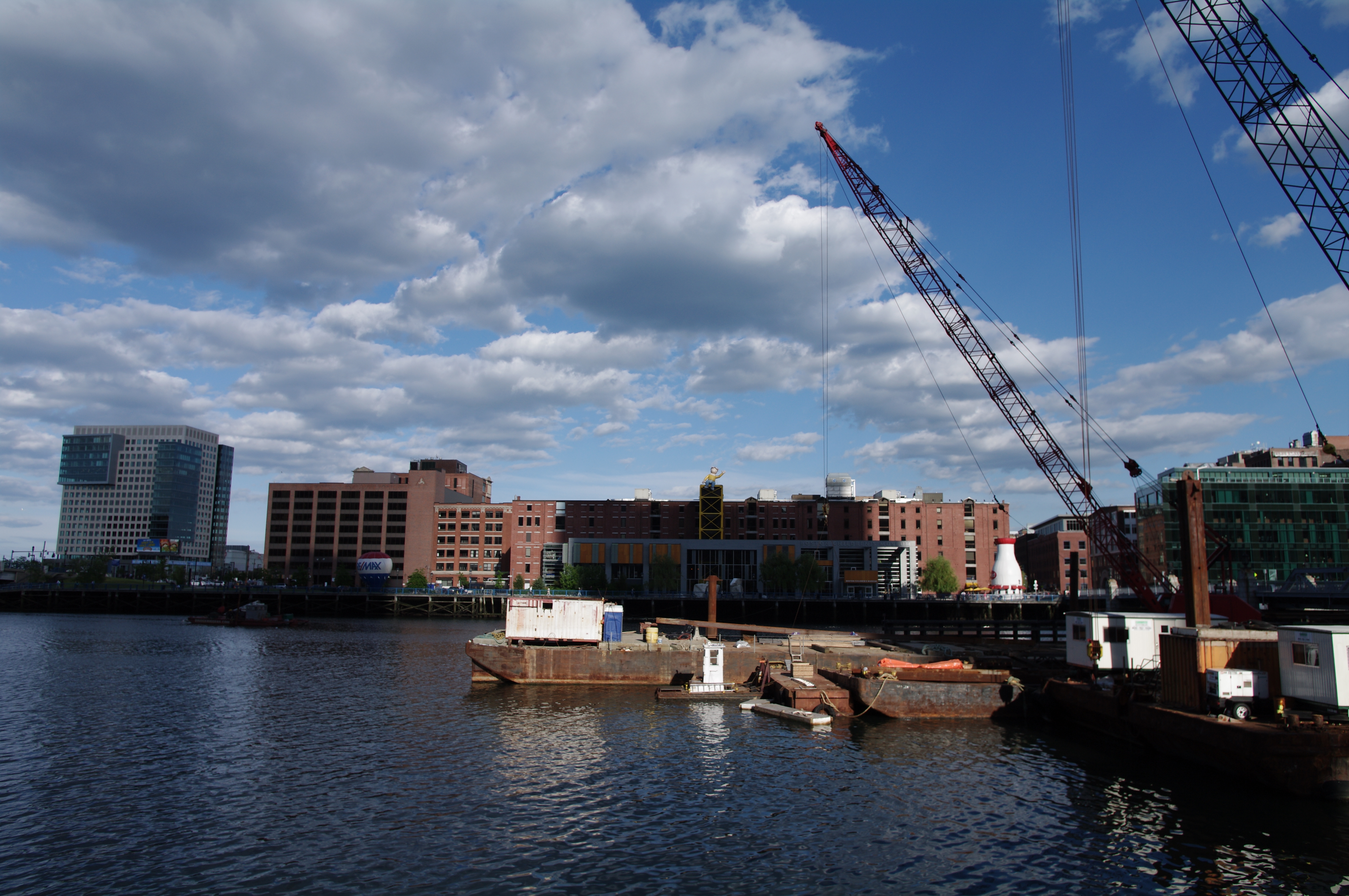 Fort Point Channel in June 2011, showing the Boston Tea Party Museum under reconstruction.